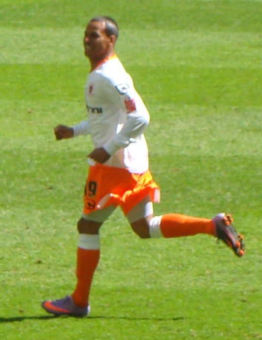 DJ Campbell. Image cropped from original at Flickr.